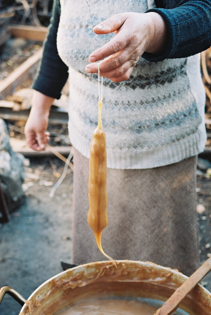 Churchkhela